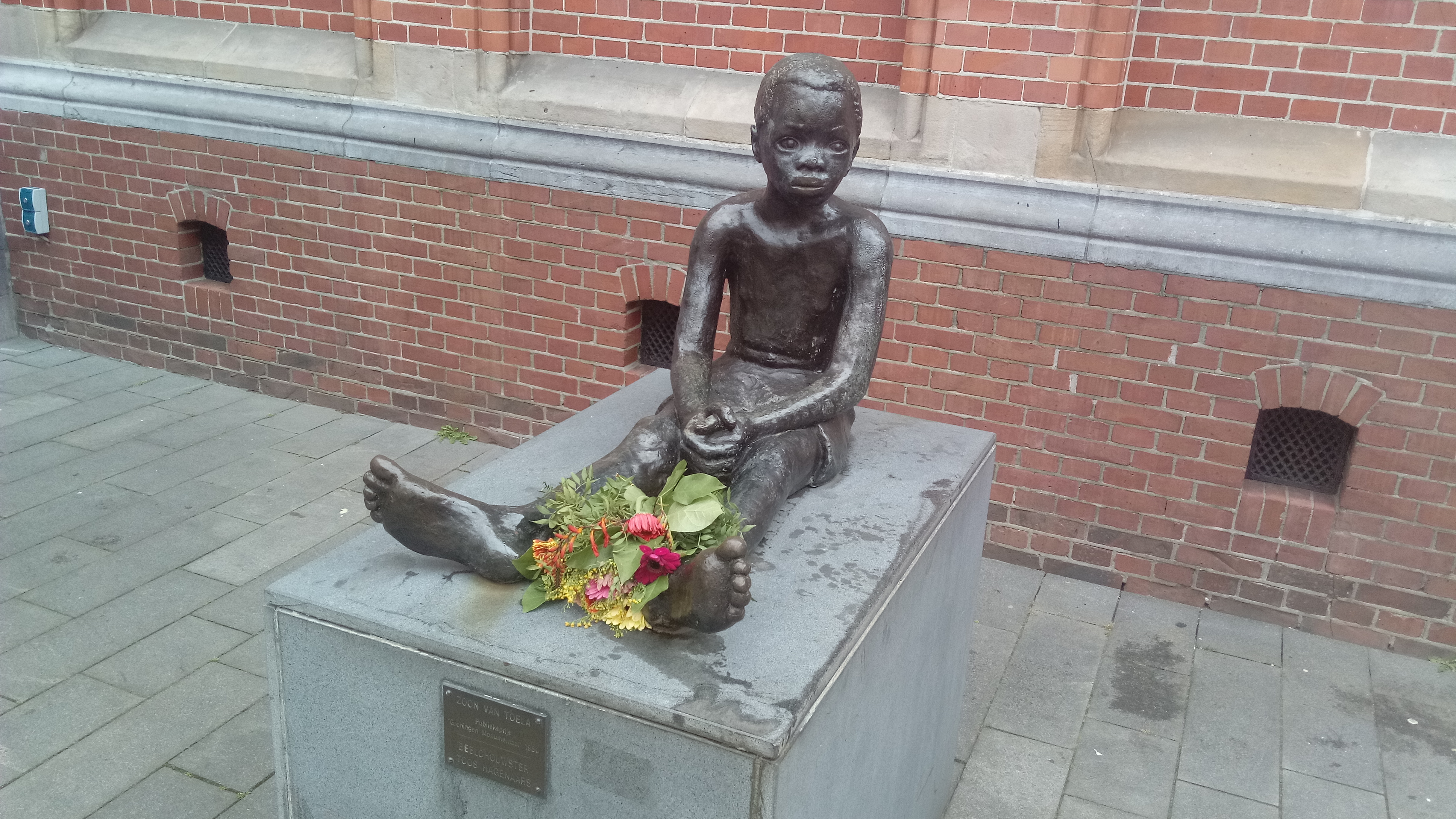 Flowers placed at the statue of the son of Tula commemorating the abolition of slavery in the Groninger city of Winschoten, Oldambt.